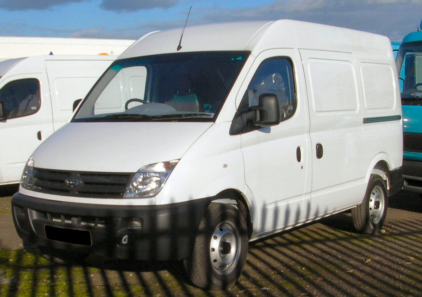 A 2005 LDV Maxus